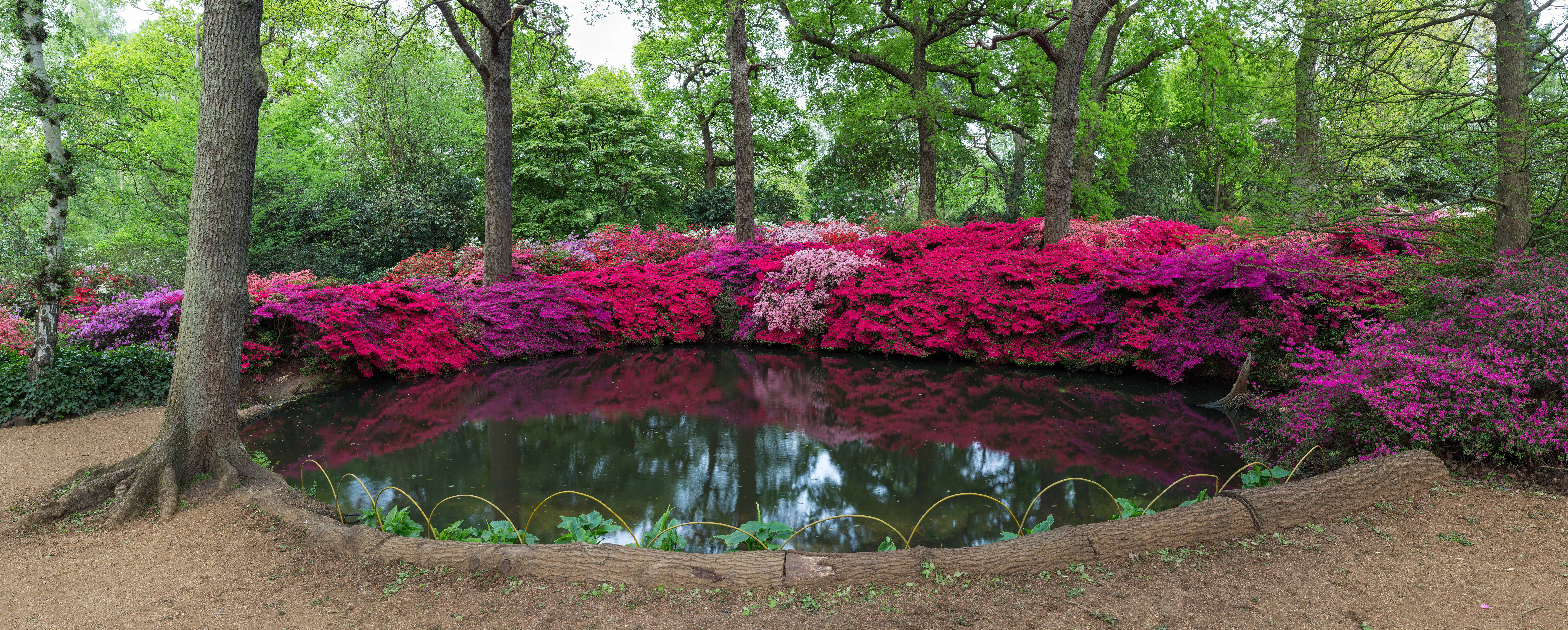 Still pond in May with the Azalea bushes blooming around it. Taken in Isabella Plantation, Richmond Park, London, England.